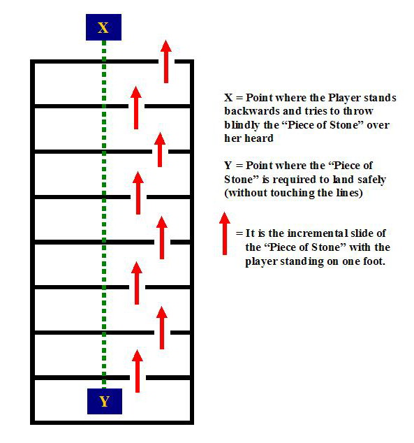 I created this Diagram to explain the "Playing Court" of Chindro.